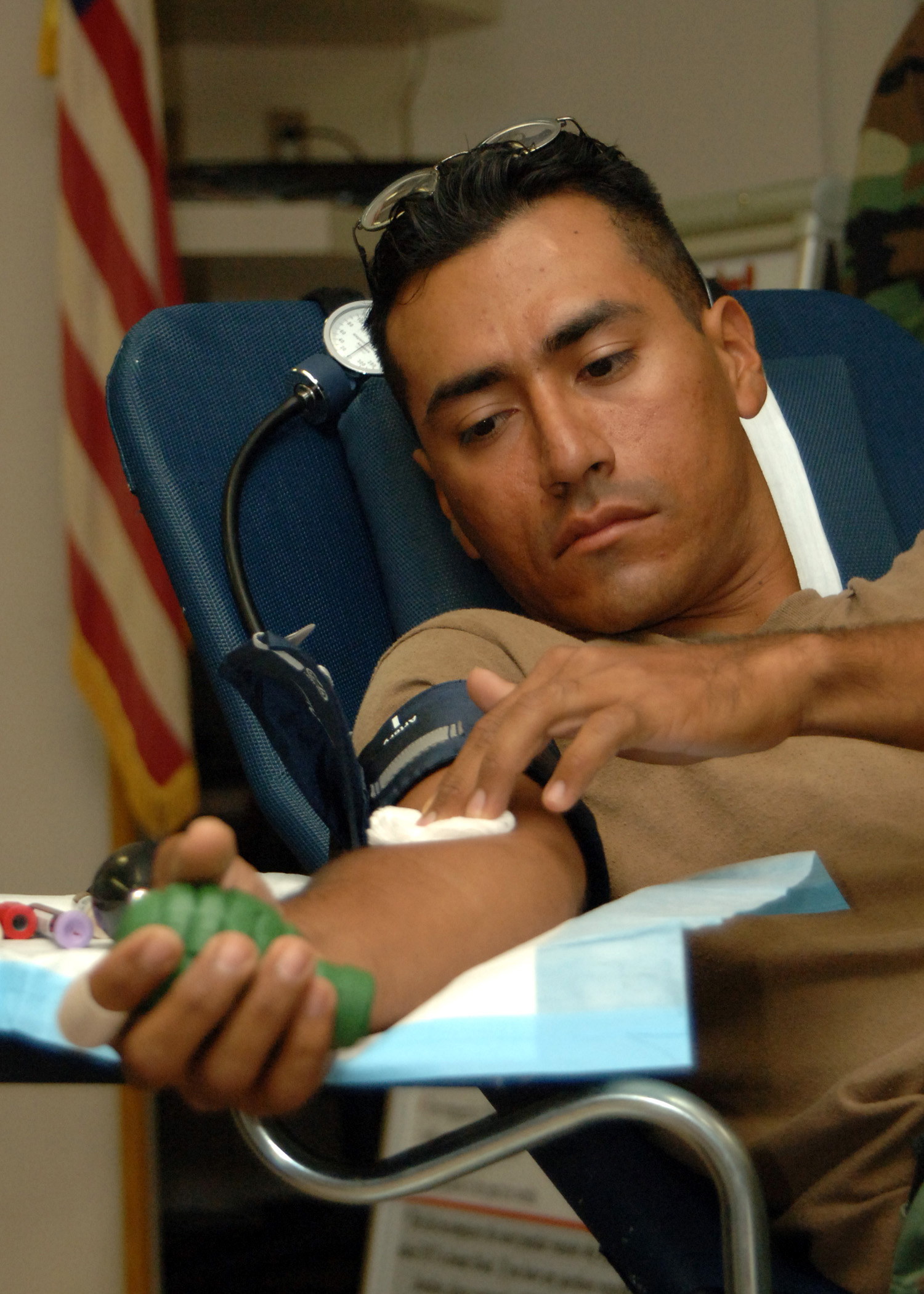 OKINAWA, Japan (Nov. 22, 2008) Engineering Aide Constructionman Roberto Diaz, assigned to Naval Mobile Construction Battalion (NMCB) 133, applies pressure to a gauze on his arm after donating blood during a blood drive hosted by NMCB-133 on Camp Shields in Okinawa. NMCB-133 is on a seven-month deployment to Okinawa, and is homeported in Gulfport, Miss. (U.S. Navy photo by Chief Mass Communication Specialist Ryan C. Delcore/Released)